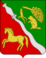 Coat of Arms of Bobrov rayon (Voronezh oblast)